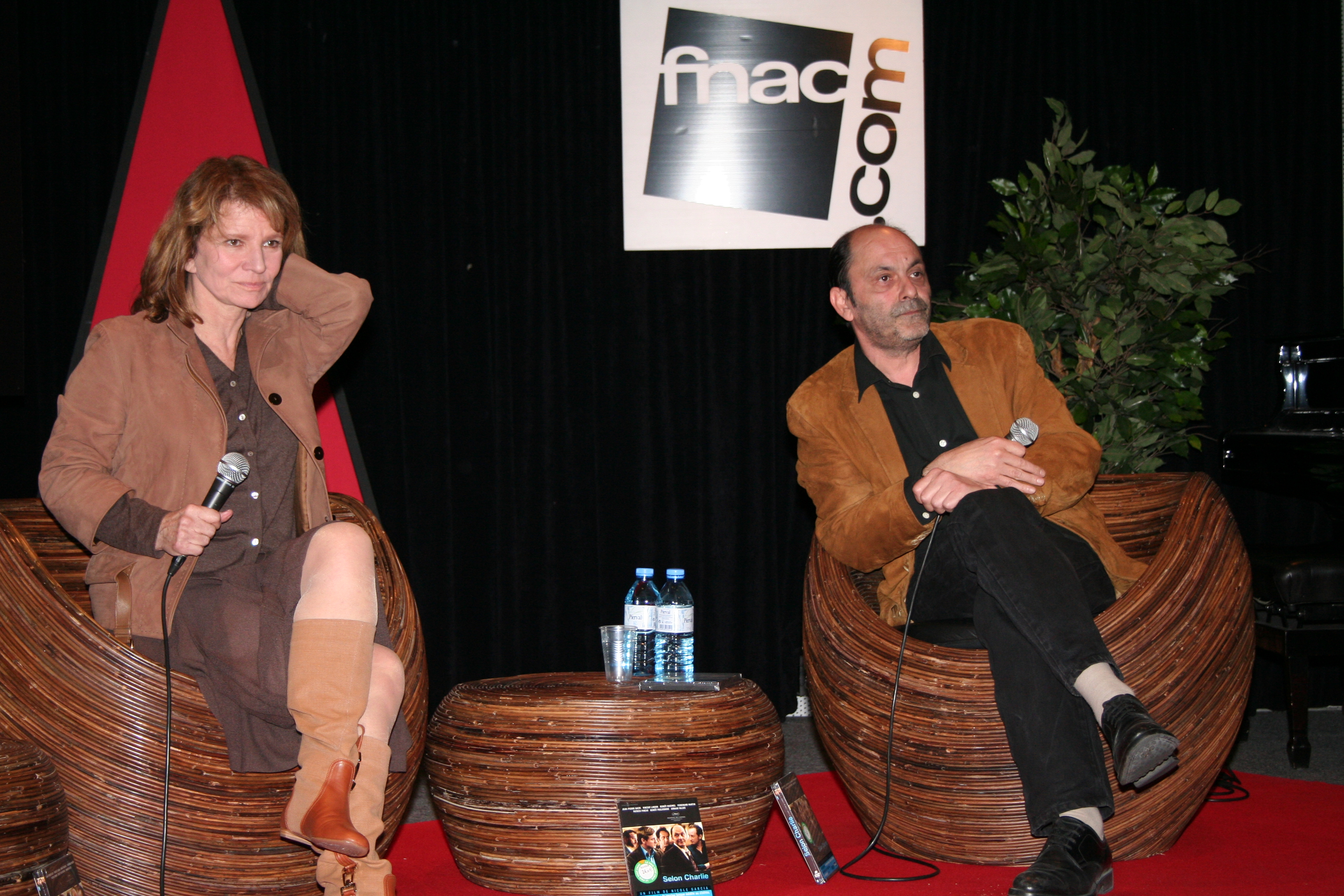 Meet-up with the film-maker Nicole Garcia and Jean-Pierre Bacri, for the release of the film Selon Charlie.